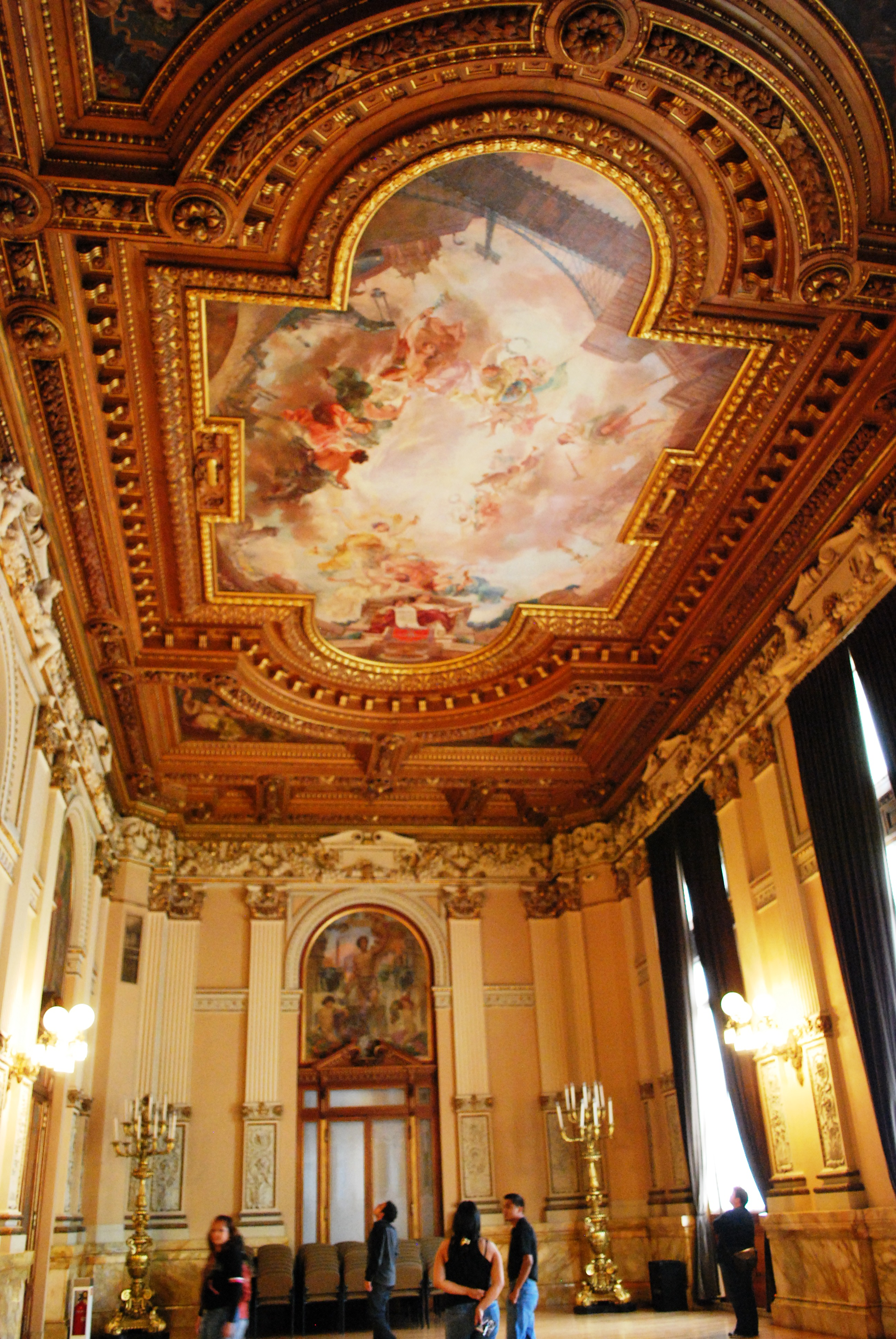 View of the Reception Hall of the Museo Nacional de Arte in Mexico City